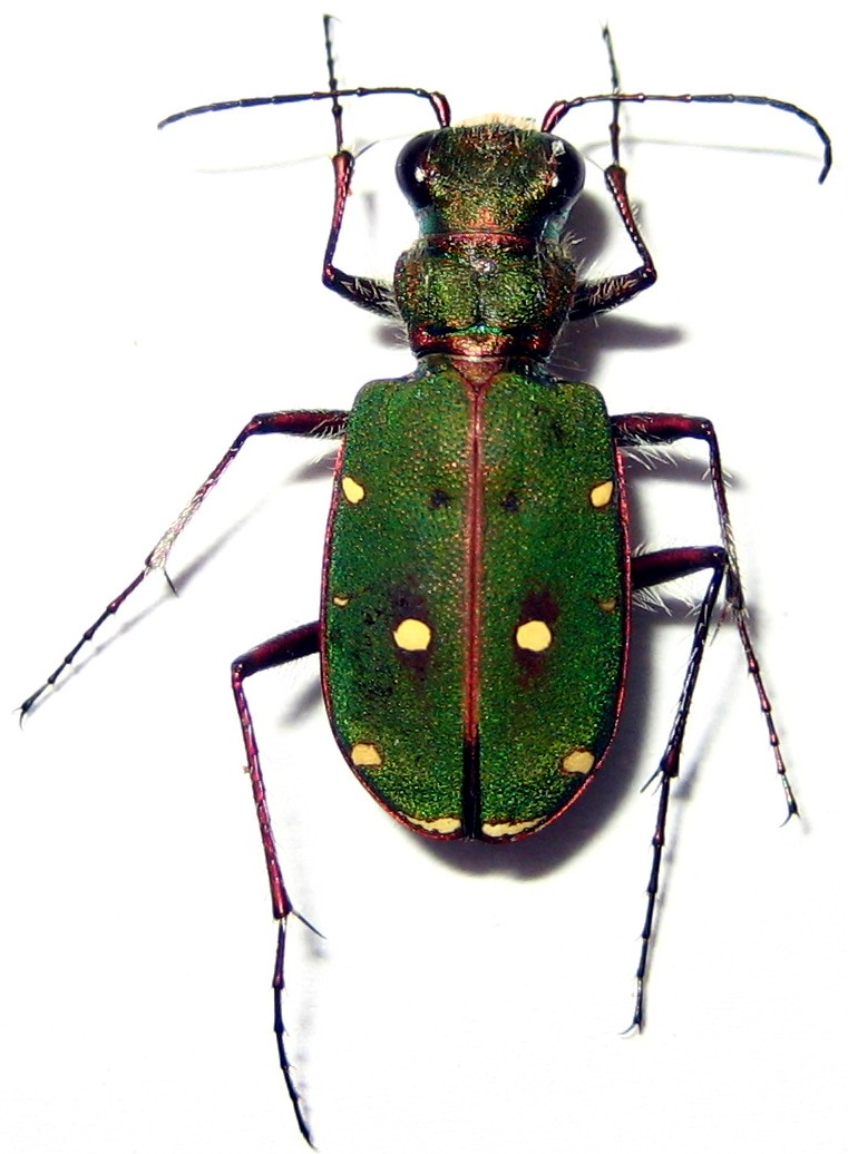 Cicindela maroccana (Terrassa, NE Spain)